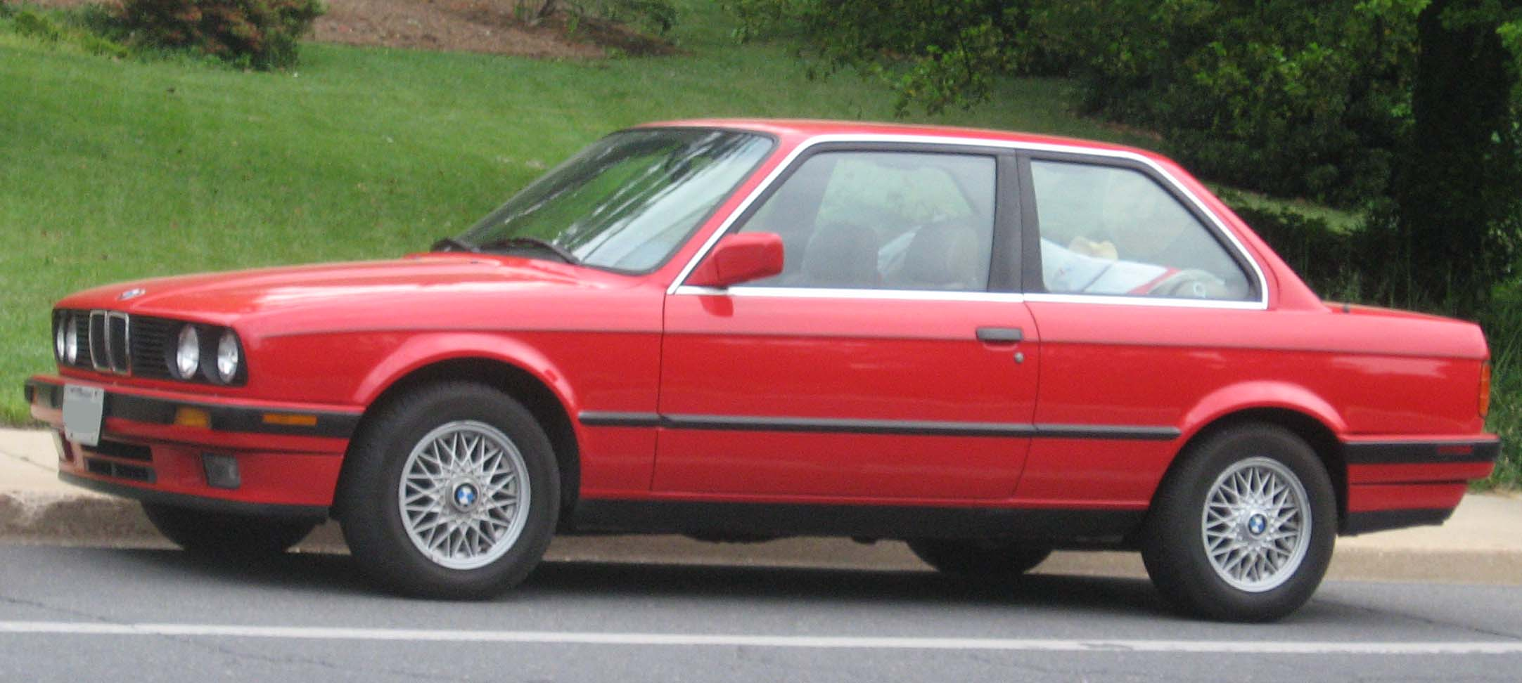 BMW 3-Series photographed in USA.